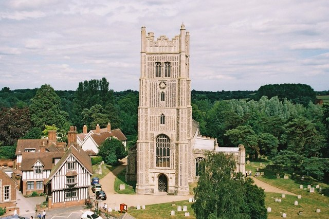 Eye: parish church of Ss. Peter & Paul from the castle